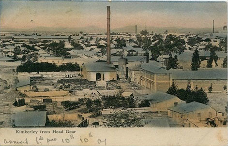 Postcards circa 1907 are depicted showing quite clearly the Kimberley municipal compound (complex) at the time. The fire station electric light plant are visible in the center of the picture.